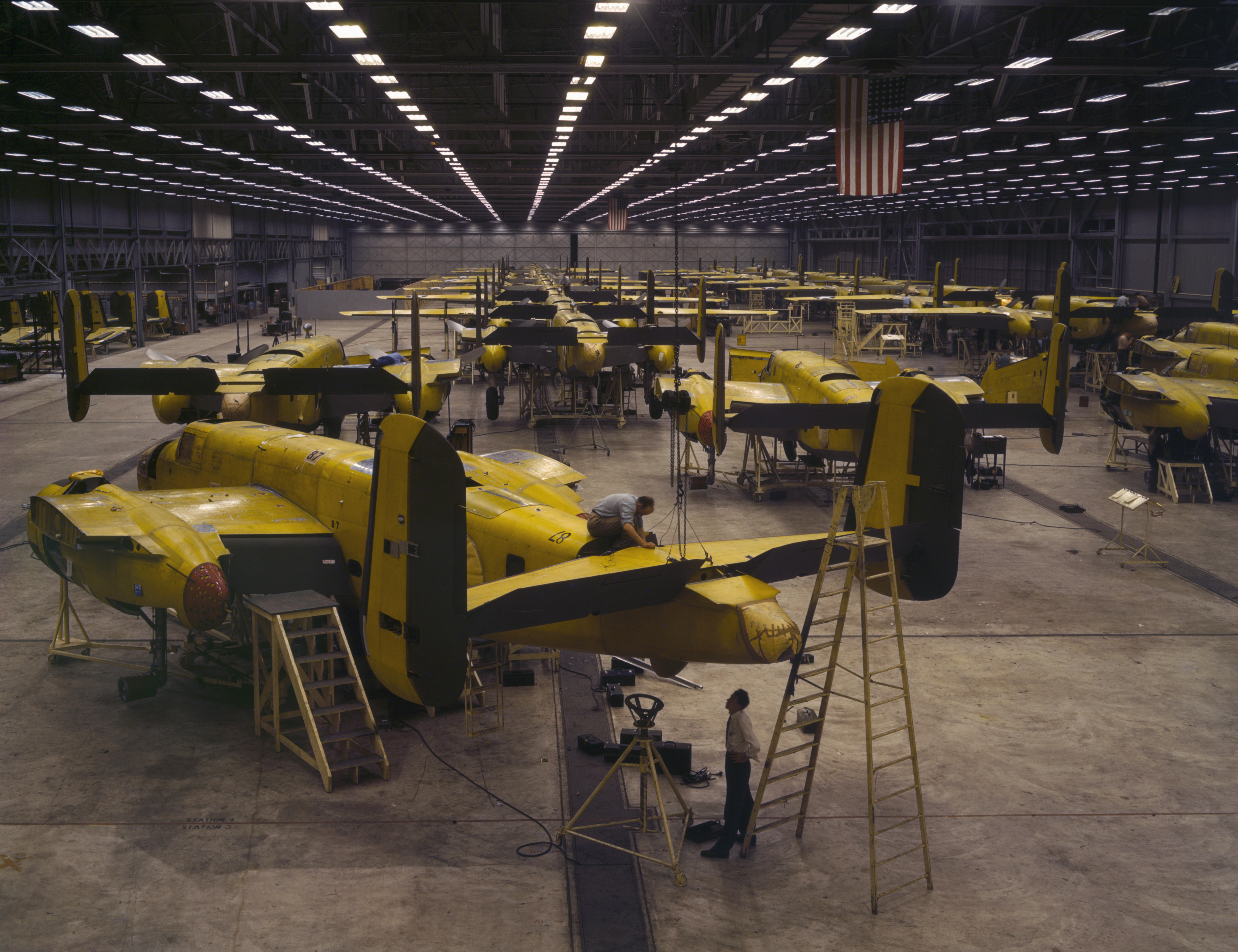 Assembling B-25 bombers at North American Aviation, Kansas City, Kansas.